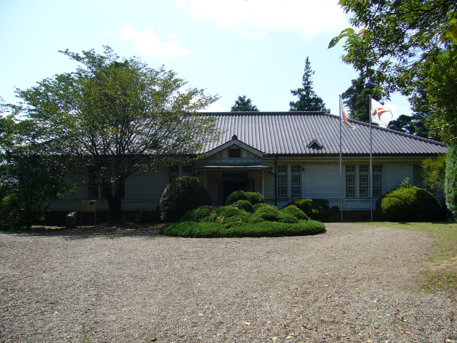 old-sanrizuka-goryou-farm-office,narita-city,japan